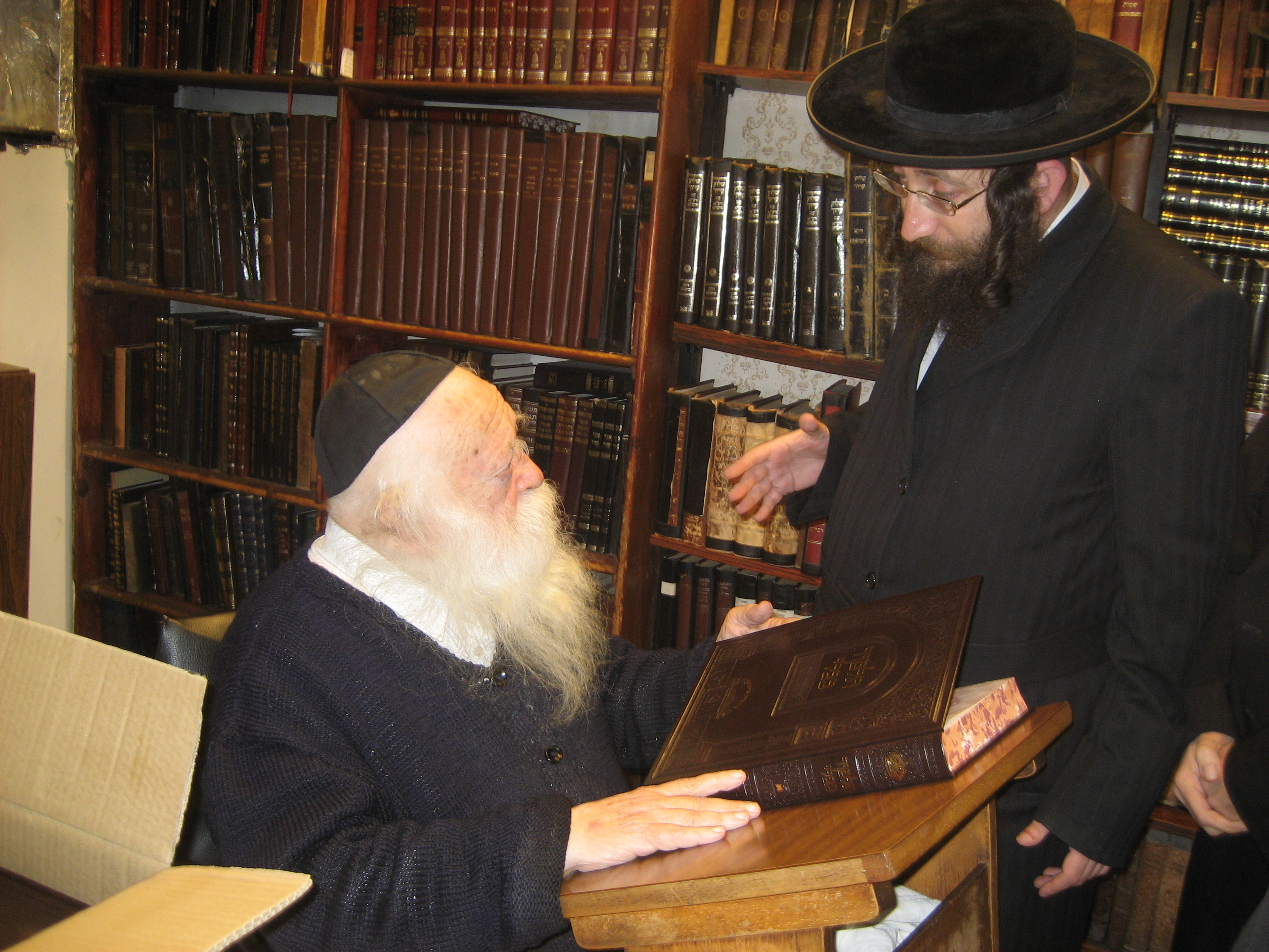 rabbi Chaim Kanievsky